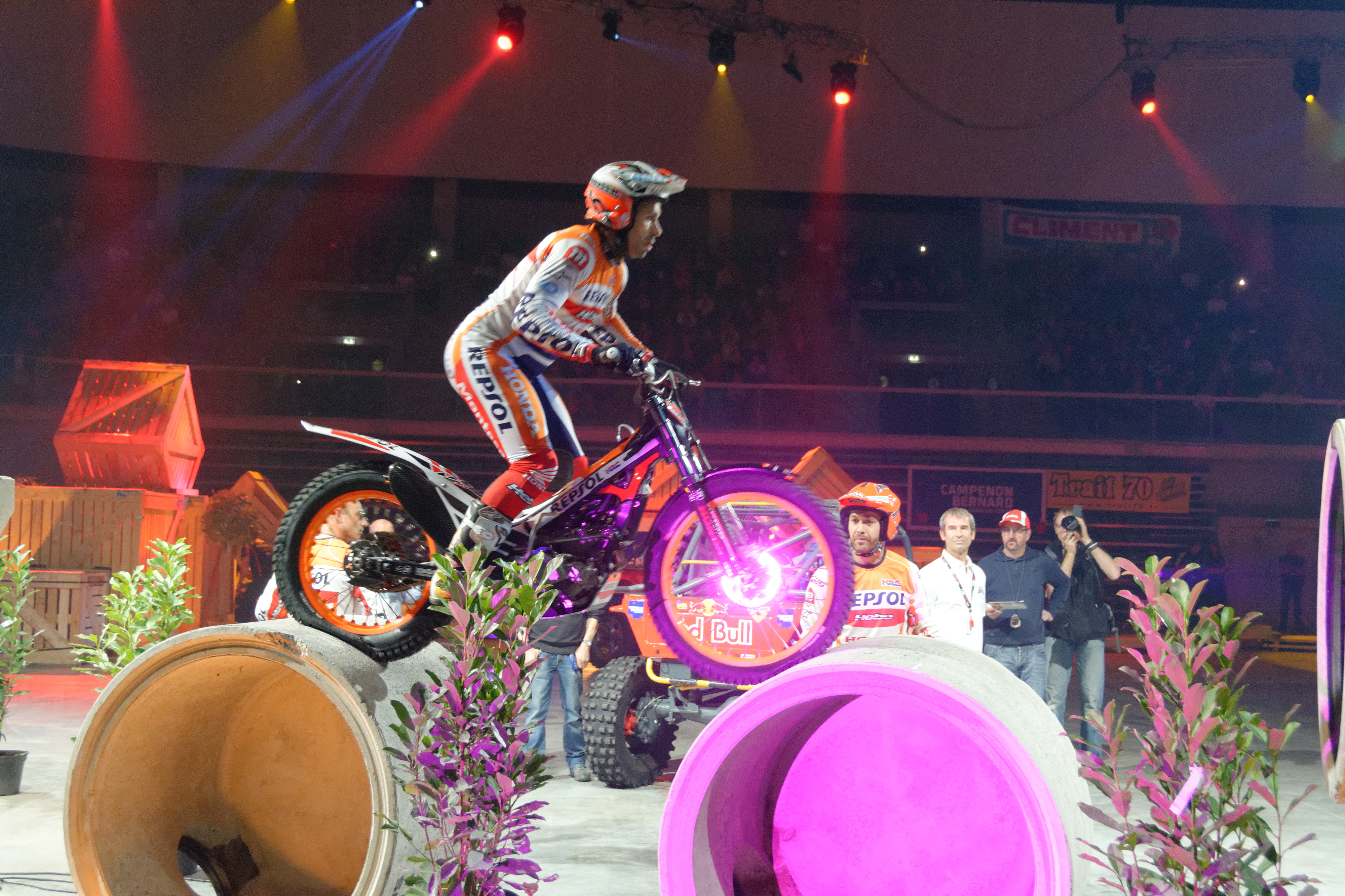 Personality rights warningAlthough this work is freely licensed or in the public domain, the person(s) shown may have rights that legally restrict certain re-uses unless those depicted consent to such uses. In these cases, a model release or other evidence of consent could protect you from infringement claims.